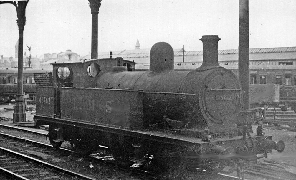 Preston Station: an unique station pilot. Seen from Platform 9 (Up side: No. 46762, a Lancashire & Yorkshire-type 2P 2-4-2T, was the sole survivor after electrification of the steam stock of the former Wirral Railway.